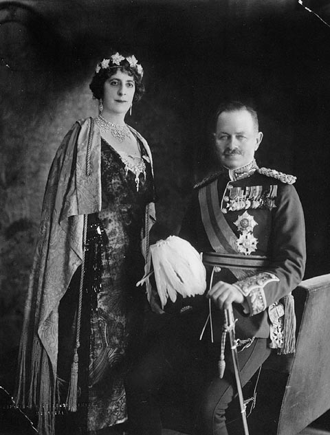 Viscount Byng of Vimy and Lady Byng